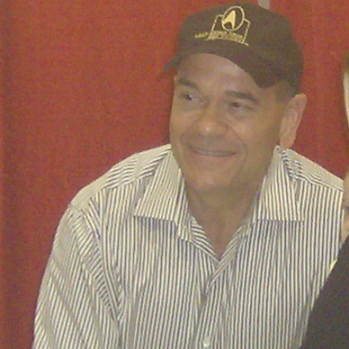 Robert Picardo at the Calgary Comic & Entertainment Expo 2007